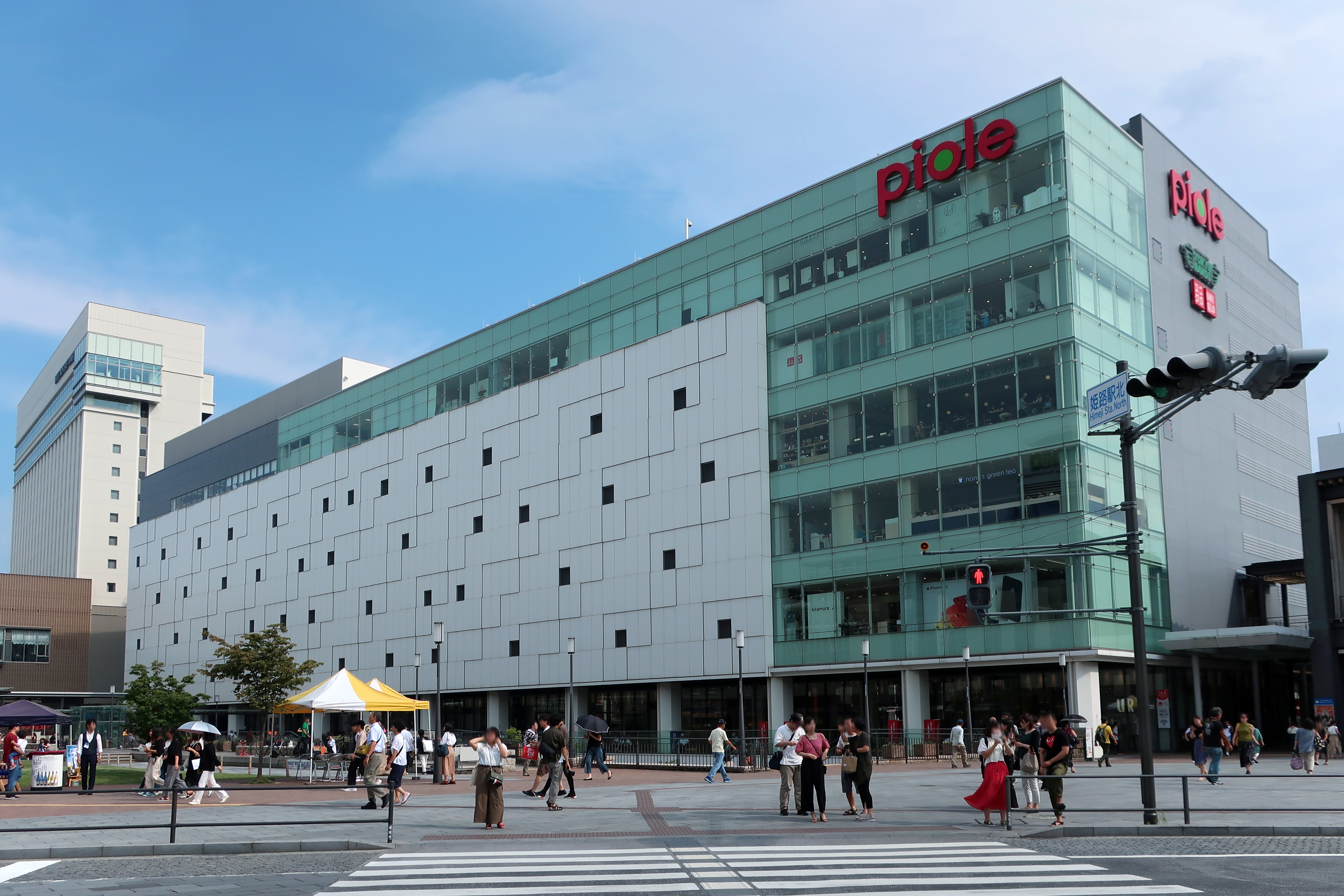 Piole HIMEJI, Himeji, Hyogo prefecture, Japan Canon PowerShot G9 X Mark II